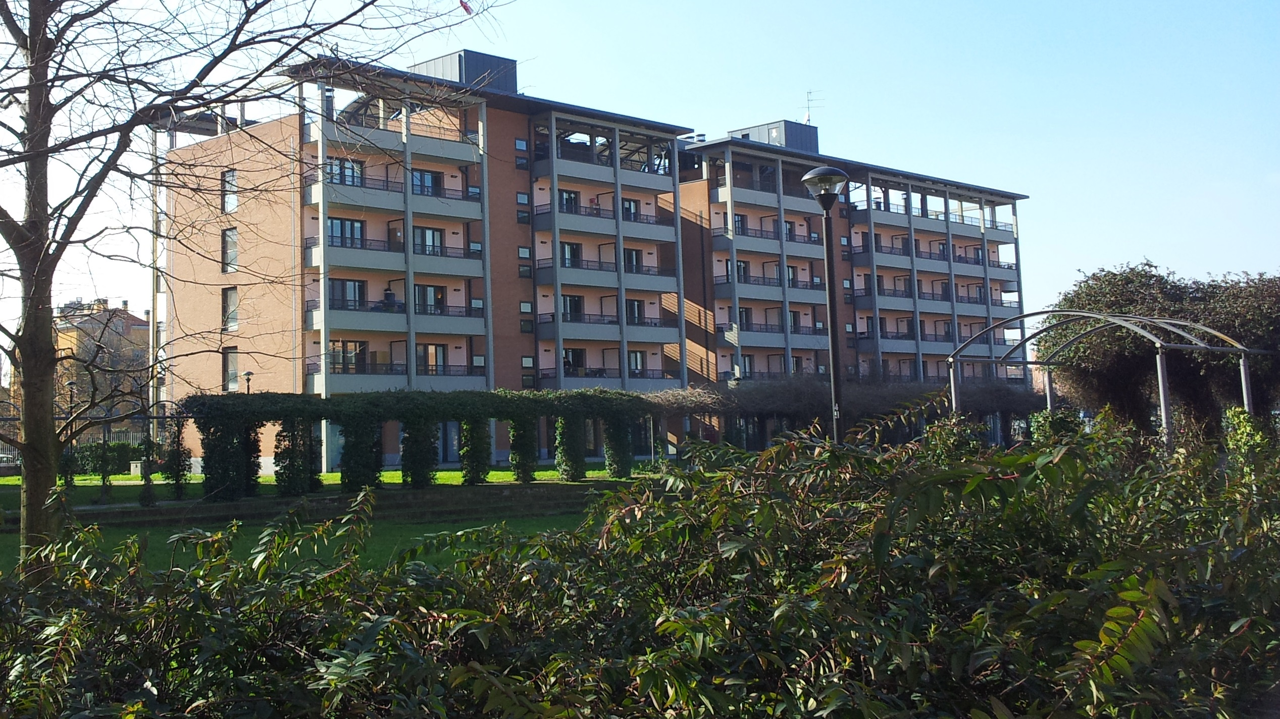 IULM University, Milan - Student Housing